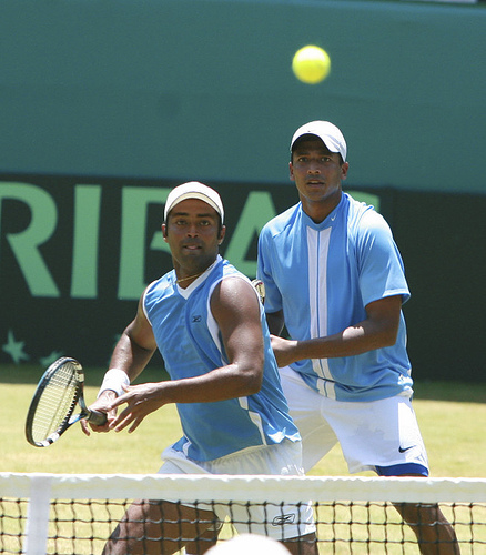 Leander Paes and his doubles partner Mahesh Bhupathi. Indian duo of Mahesh Bhupathi and Leander Paes won the doubles titles four times between 1997 and 2002. Leander Paes (left), along with his team-partner Mahesh Bhupati (right), has won seven tennis Grand Slam doubles titles. Tennis' popularity has grown dramatically in India.